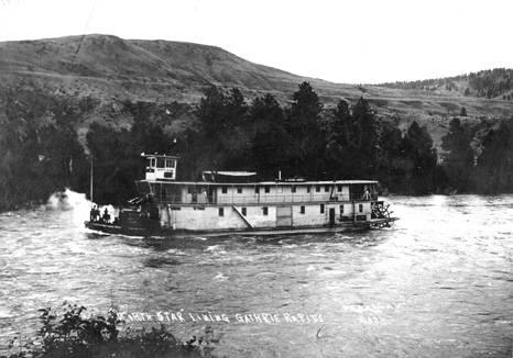 This is the sternwheeler North Star "lining" Guthrie Rapids on the Okanogan River. "Lining" meant to attach a cable to a rock or tree and crank the steamer up a rapid using a winch on board the vessel.